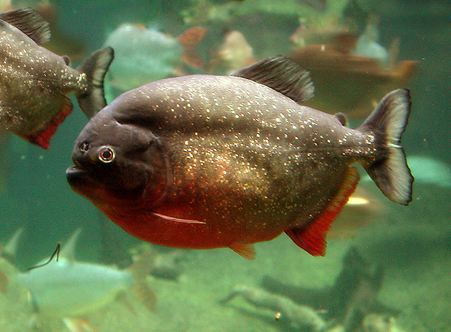 These fish form big shoals. These small fish have the reputation of being one of the most ferocious freshwater fish in the world. Their short jaws certainly are very powerful and lined with razor sharp teeth, well able to take a chunk of flesh out of much larger fish. They predominantly eat other fish but myth suggests they will attack any creature, whatever the size, if it is injured or struggling in the water.